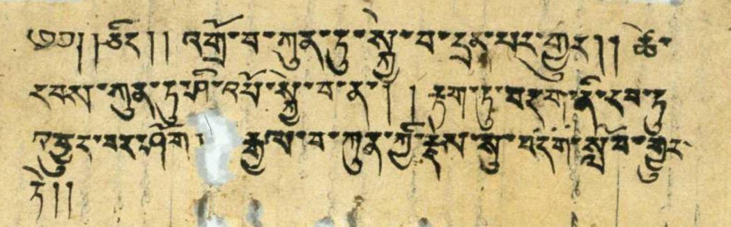 Tibetan side of a bilingual Mongolian-Tibetan text fragment found at Turfan. Dimensions of the text area about 15×4,5 cm.